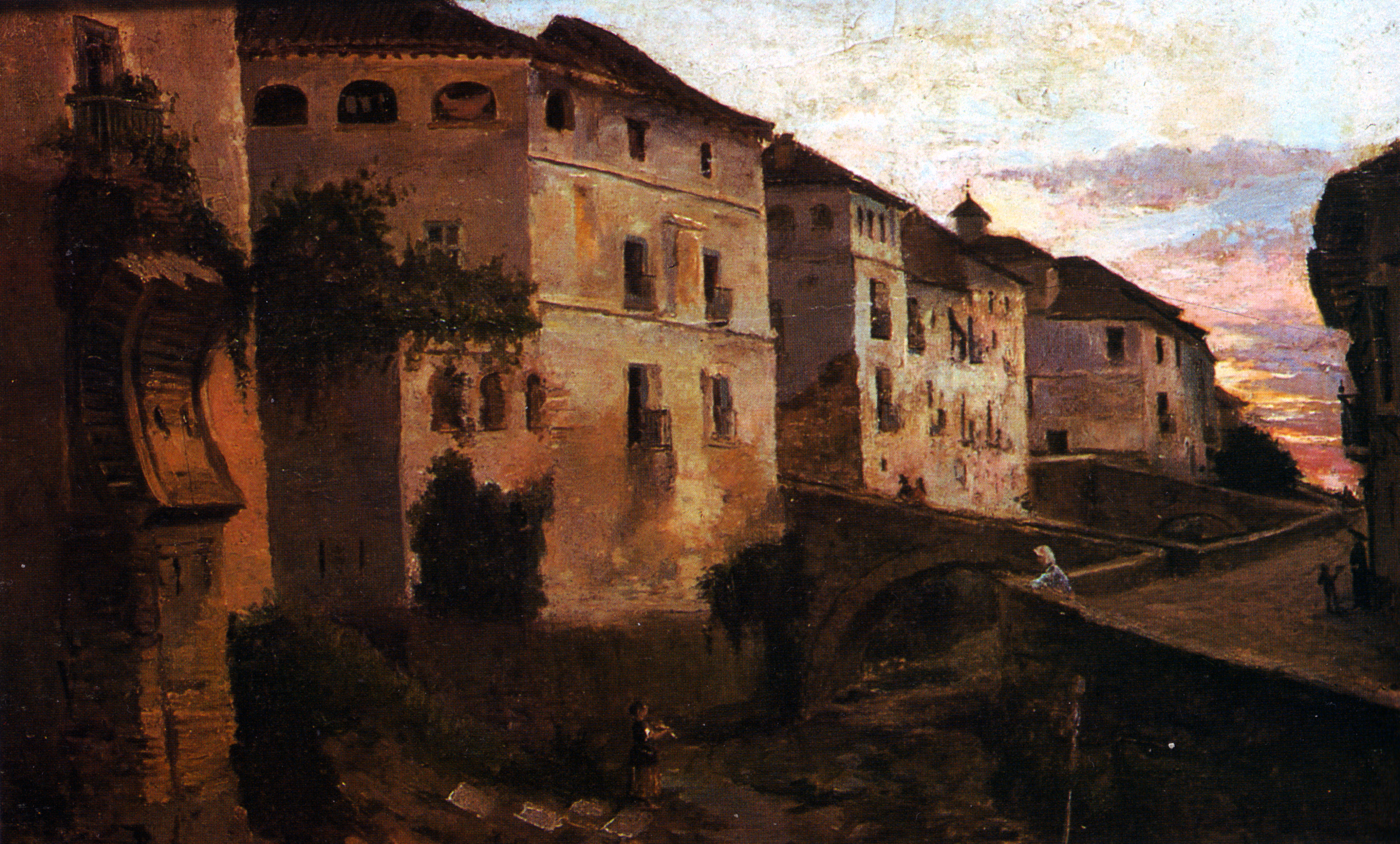 Carrera del Darro